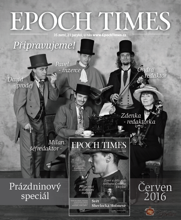 Czech newspaper editors Epoch Times is preparing a new special World of Sherlock Holmes. Photographed in History Foto Atelier Prague.